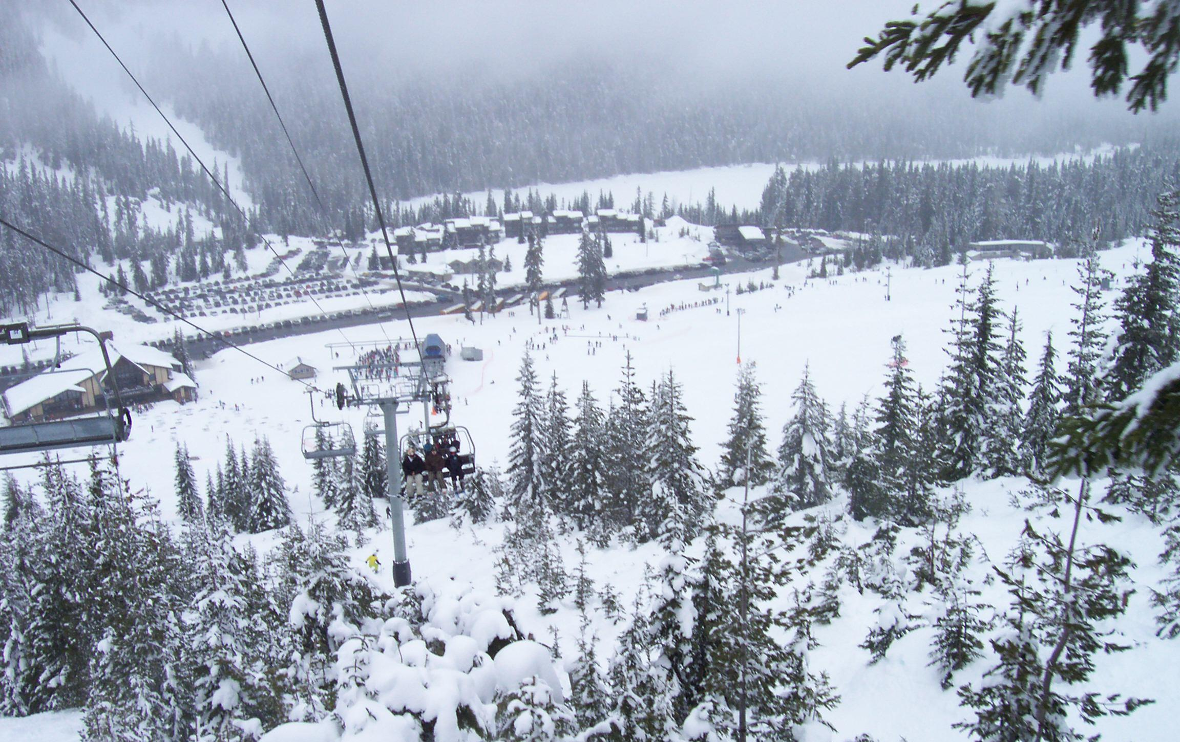 Looking back off of the ski lift at White Pass Ski Area